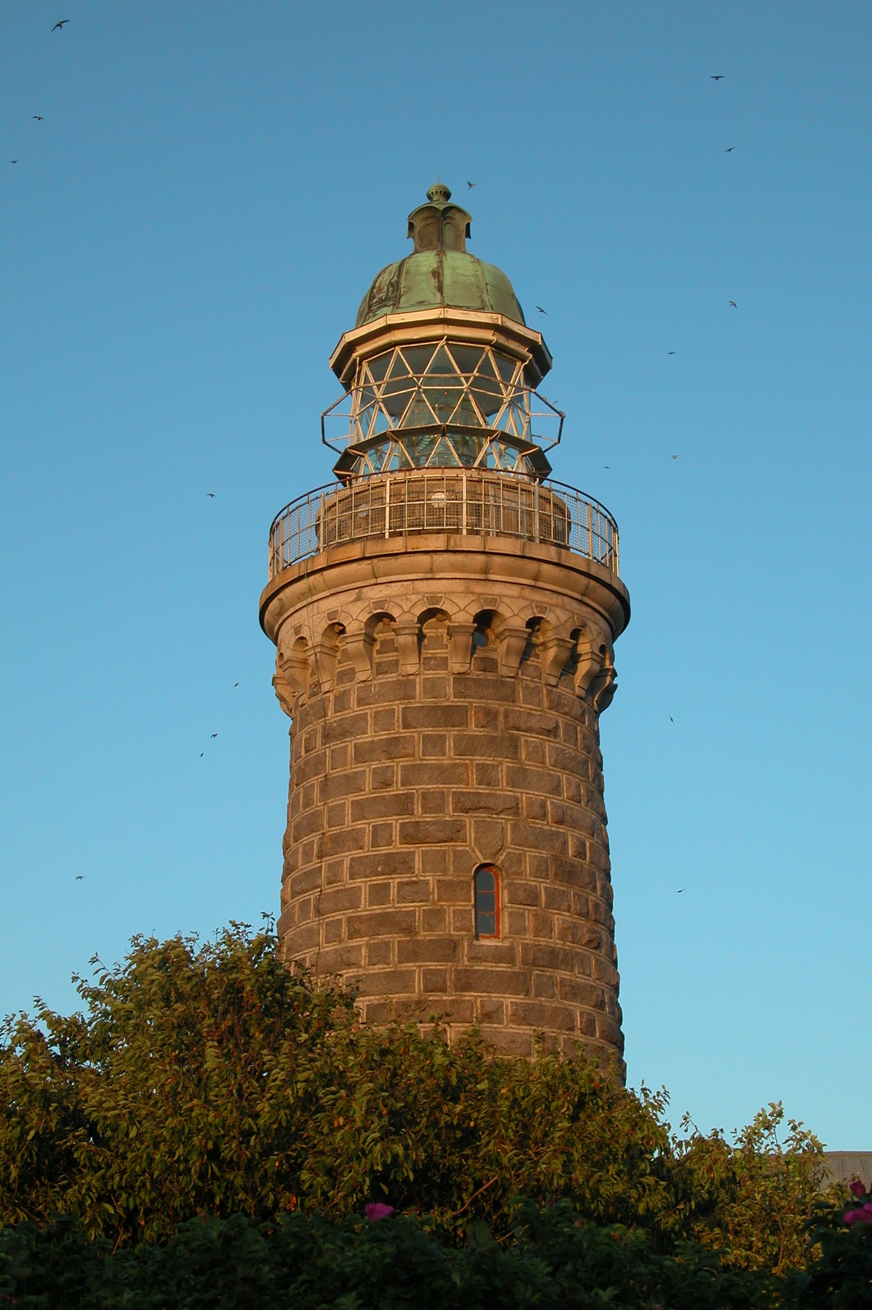 Lighthouse Skjoldnæs, Ærø, Denmark